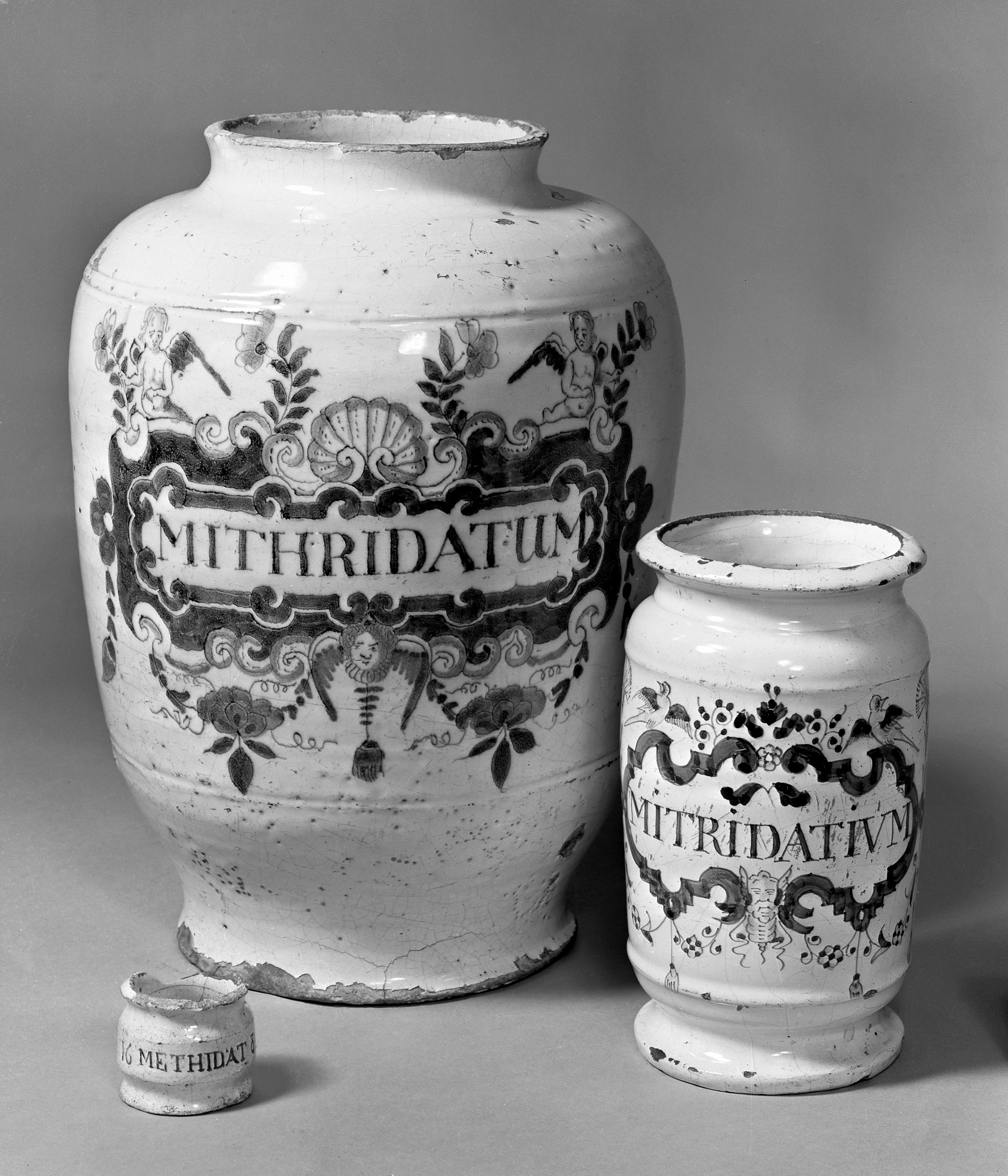 3 Drug jars for Mithridatum. Wellcome Images Keywords: Pharmacy